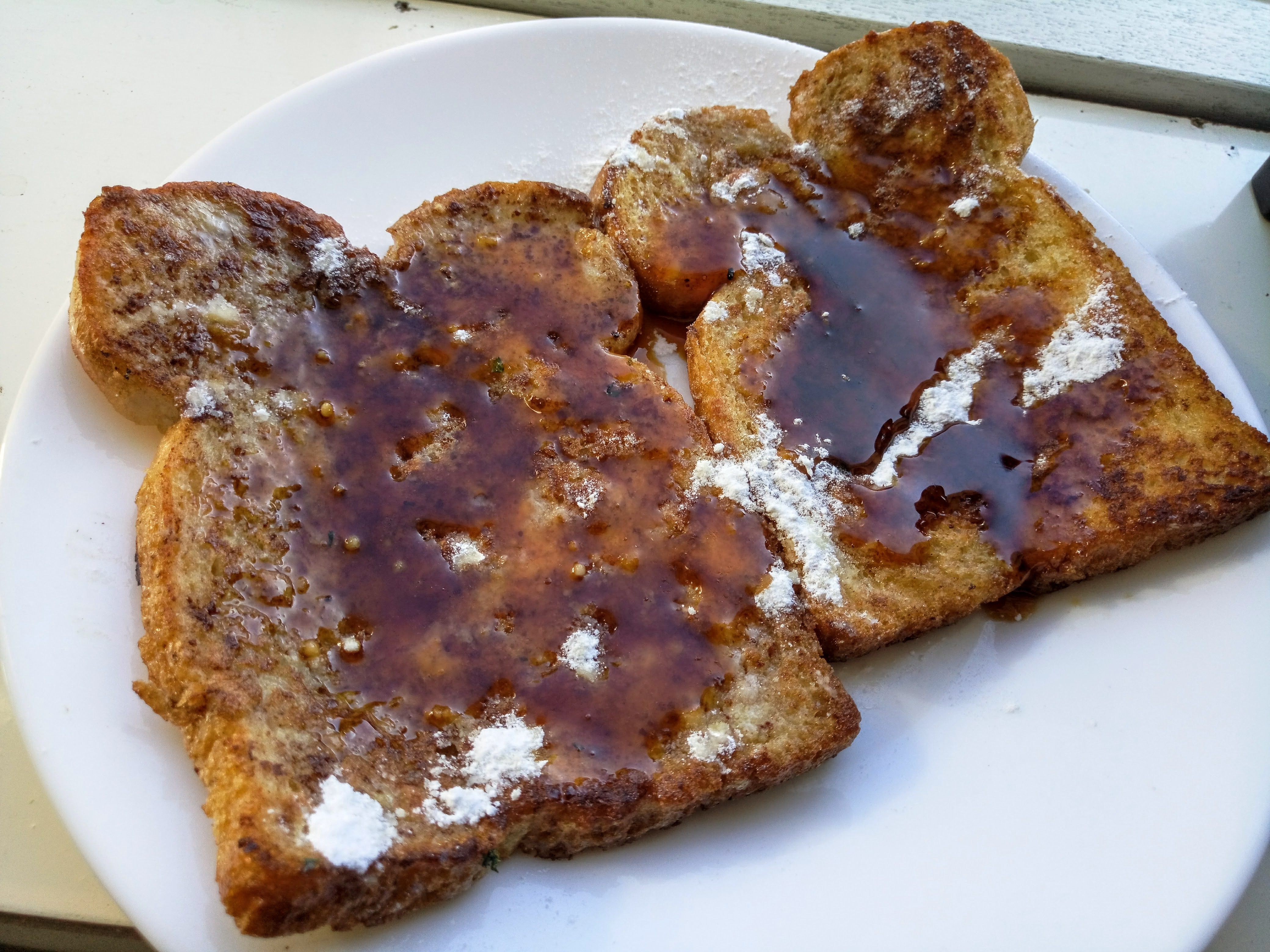 French toast with powdered sugar and maple syrup